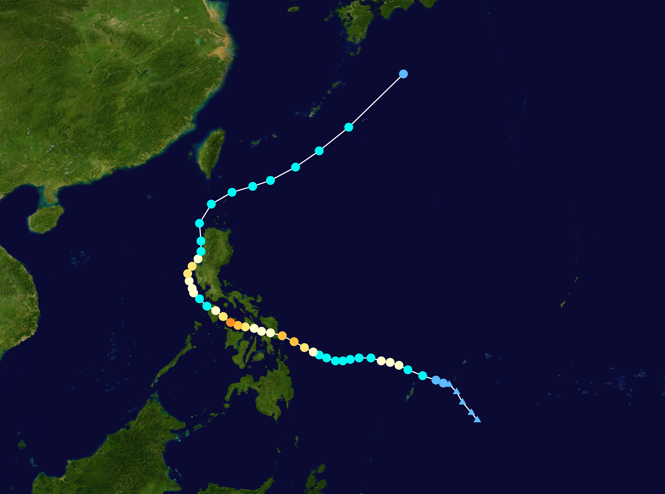 Track map of Typhoon Irma of the 1966 Pacific typhoon season. The points show the location of the storm at 6-hour intervals. The colour represents the storm's maximum sustained wind speeds as classified in the Saffir-Simpson Hurricane Scale (see below), and the shape of the data points represent the nature of the storm, according to the legend below. Saffir–Simpson hurricane wind scale Tropical depression≤38 mph≤62 km/h Category 3111–129 mph178–208 km/h Tropical storm39–73 mph63–118 km/h Category 4130–156 mph209–251 km/h Category 174–95 mph119–153 km/h Category 5≥157 mph≥252 km/h Category 296–110 mph154–177 km/h Unknown Storm typeTropical cycloneSubtropical cycloneExtratropical cyclone / Remnant low / Tropical disturbance